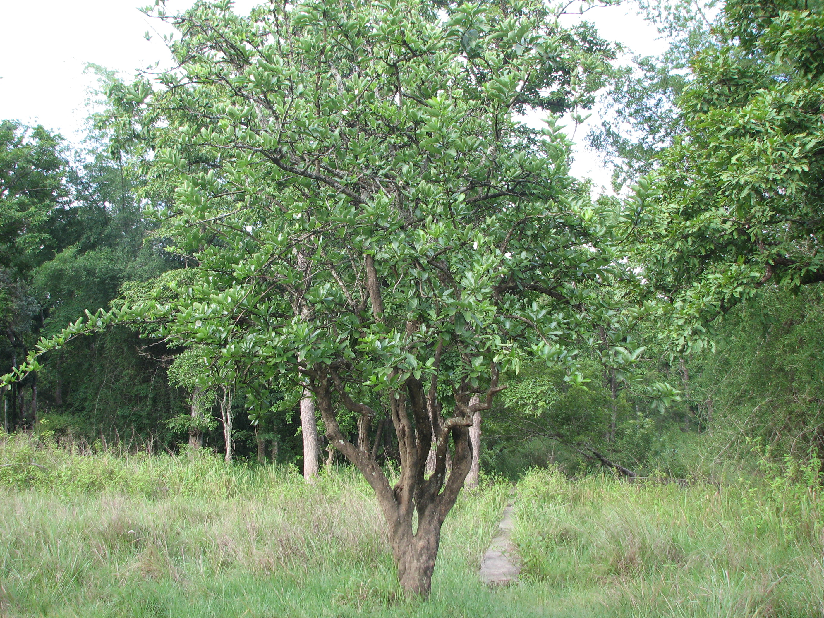 This image was taken from Muthanga Forest, Wayanad. The tree its known as Crateva religiosa. This media file is uploaded with Malayalam loves Wikimedia event.